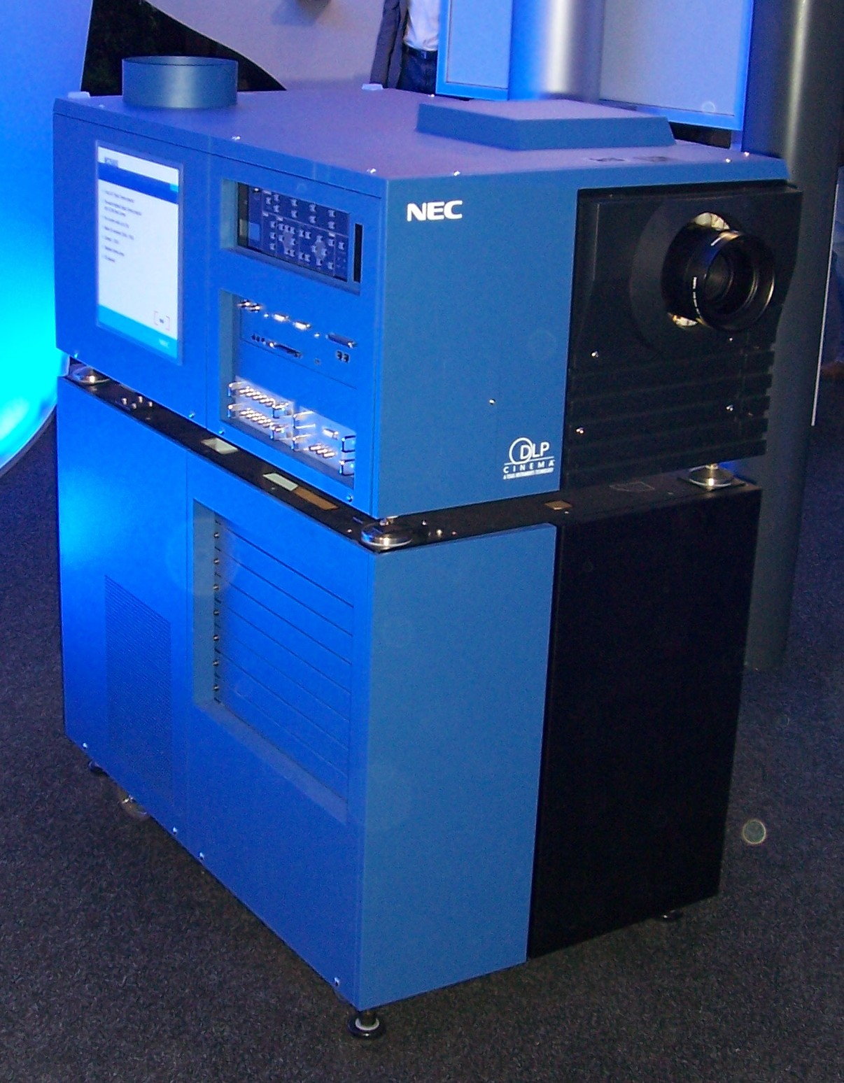 NEC Cinema DLP Beamer NC2500 at cebit 2006